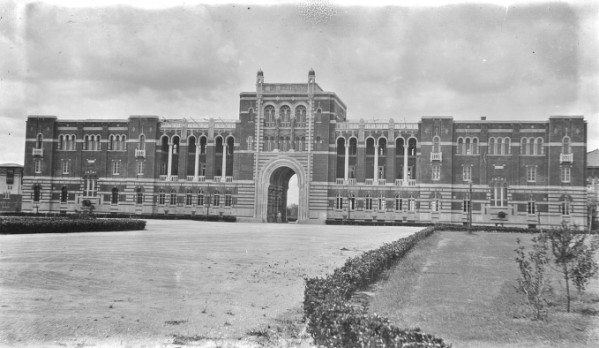 Lovett Hall on the campus of Rice University